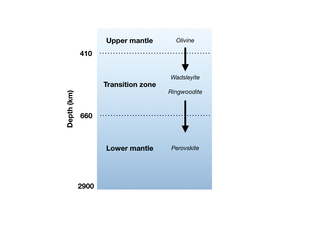 Shows the phase transformations from olivine to wadsleyite and ringwoodite to perovskite moving from the upper mantle, transition zone, and lower mantle.